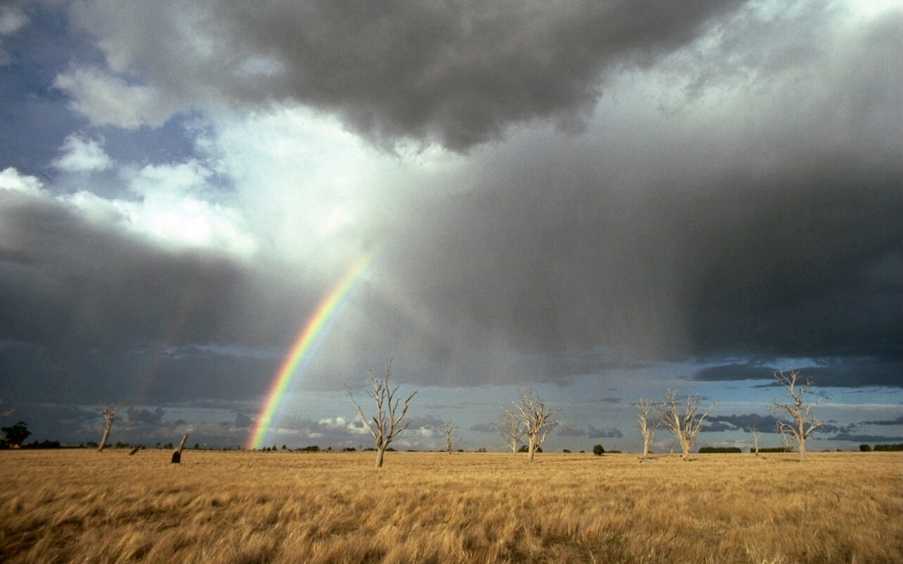 Rainbow at Lyndhurst, Victoria, Australia